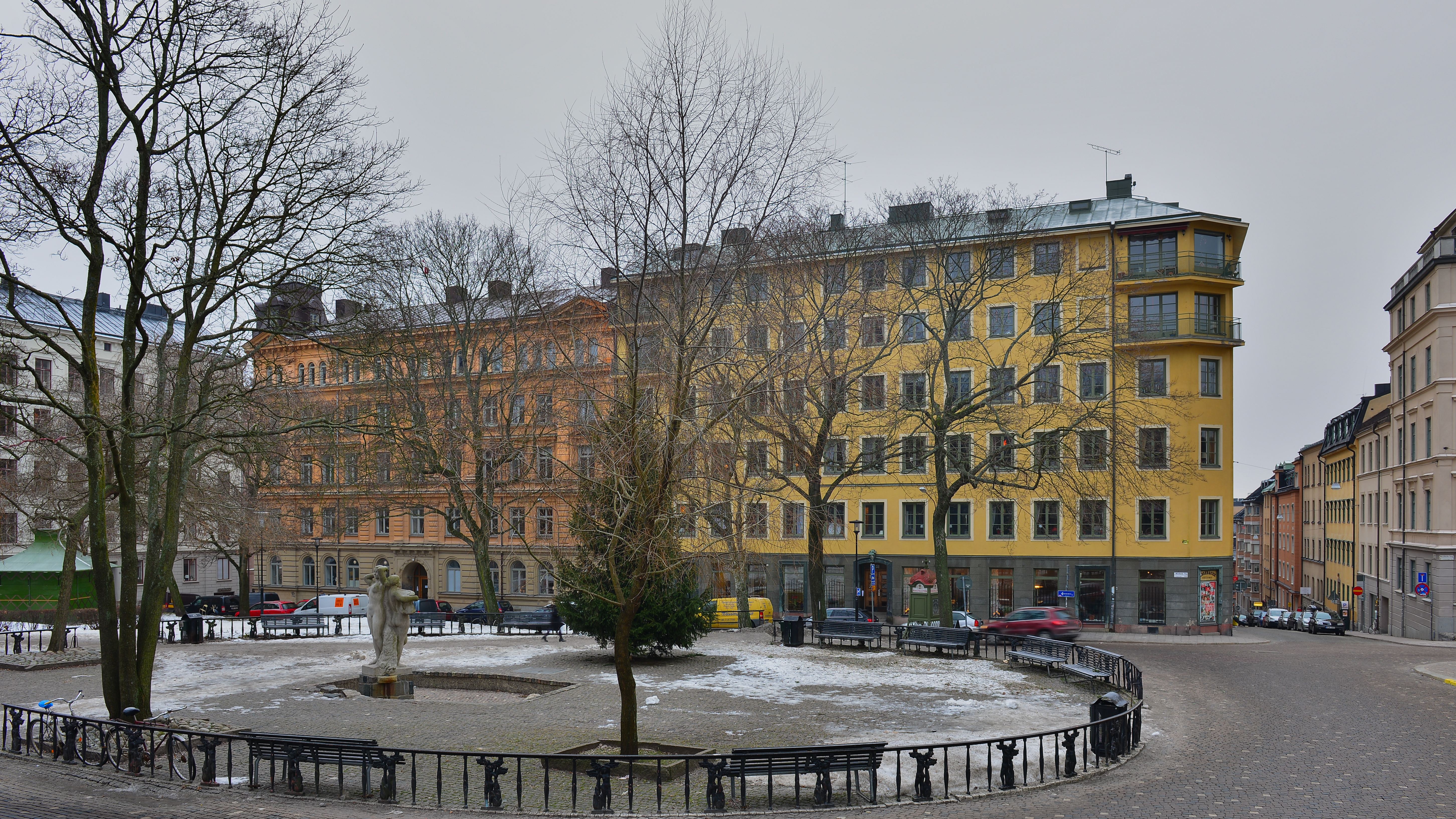 Mosebacke torg (square), Södermalm, Stockholm.